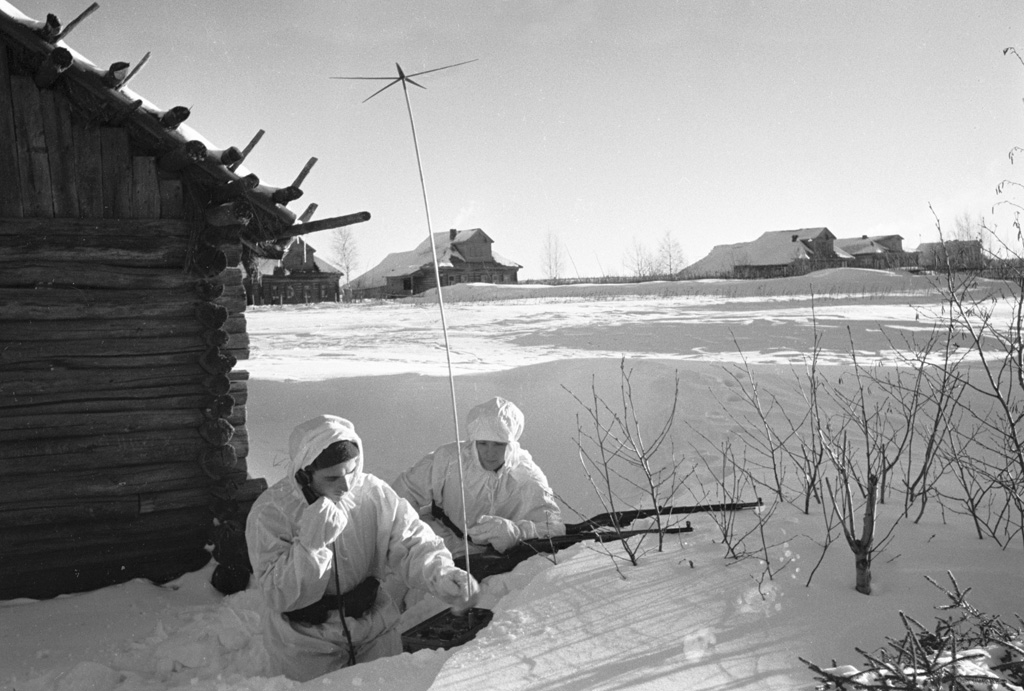 “A radio operator making a report to the headquarters”. A 3-R radio operator making a report to the regiment's headquarters.